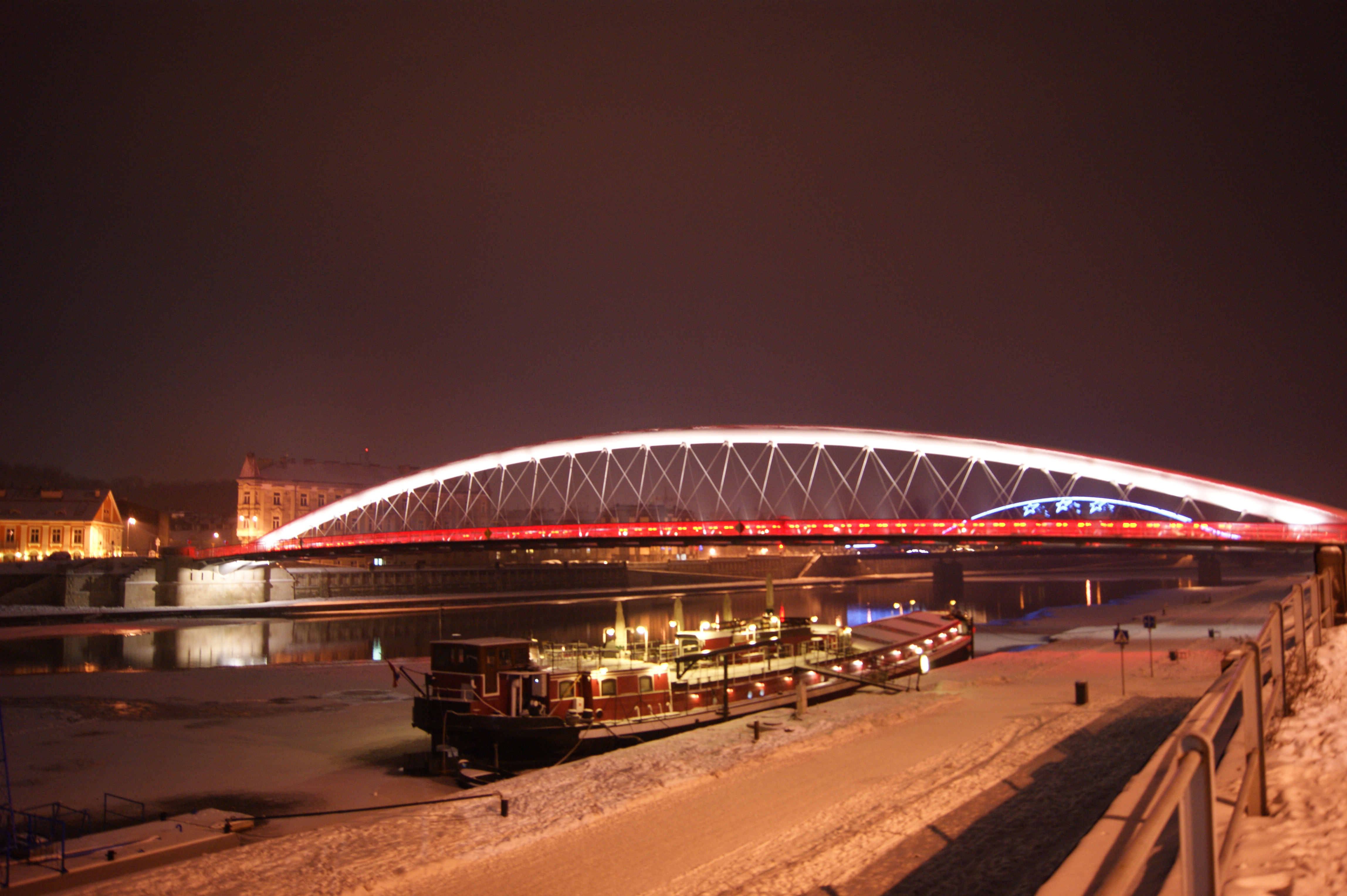 Bernatek foot-bridge (night),Krakow,Poland